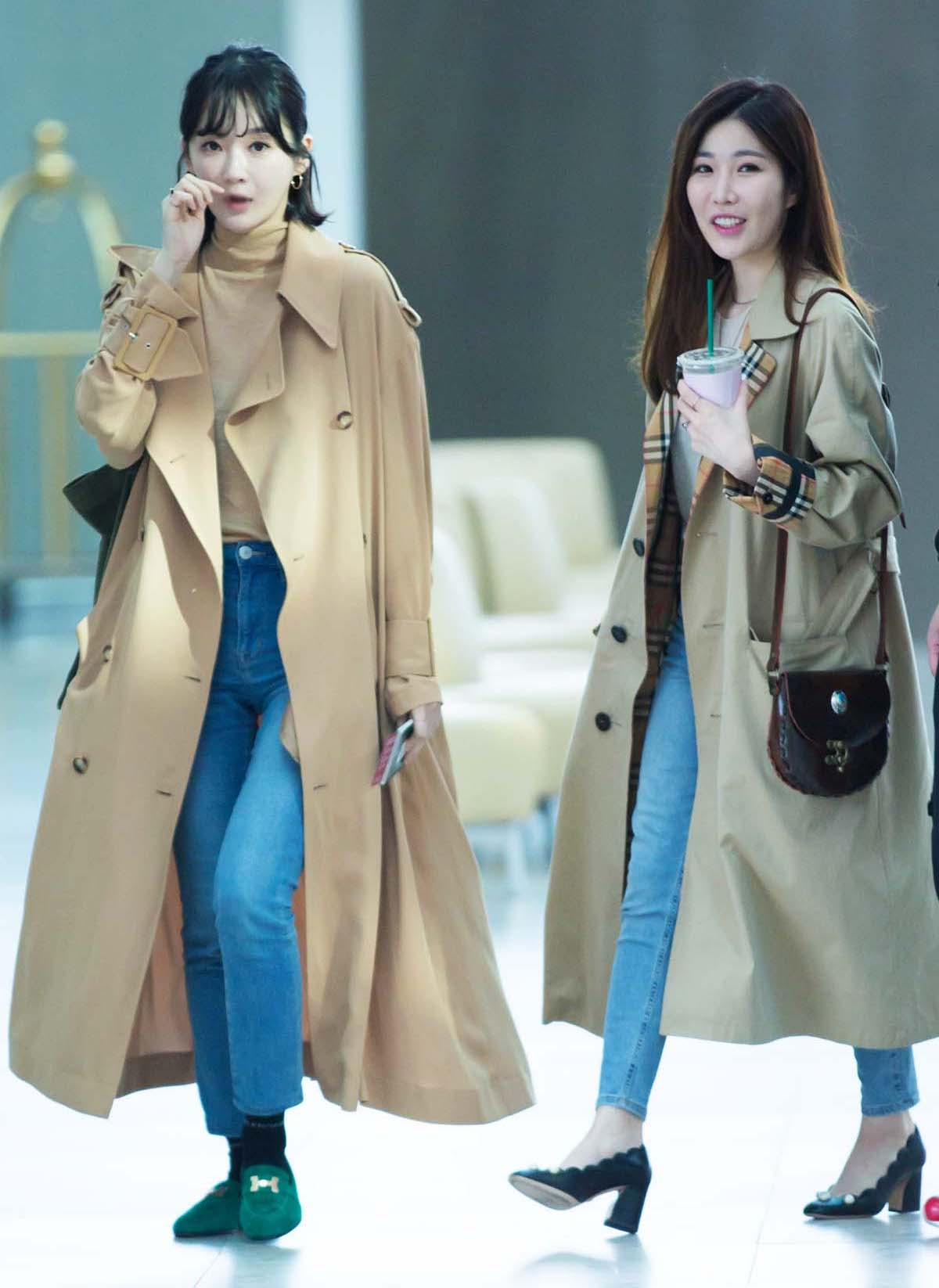 Davichi at Incheon International Airport on March 31, 2018.